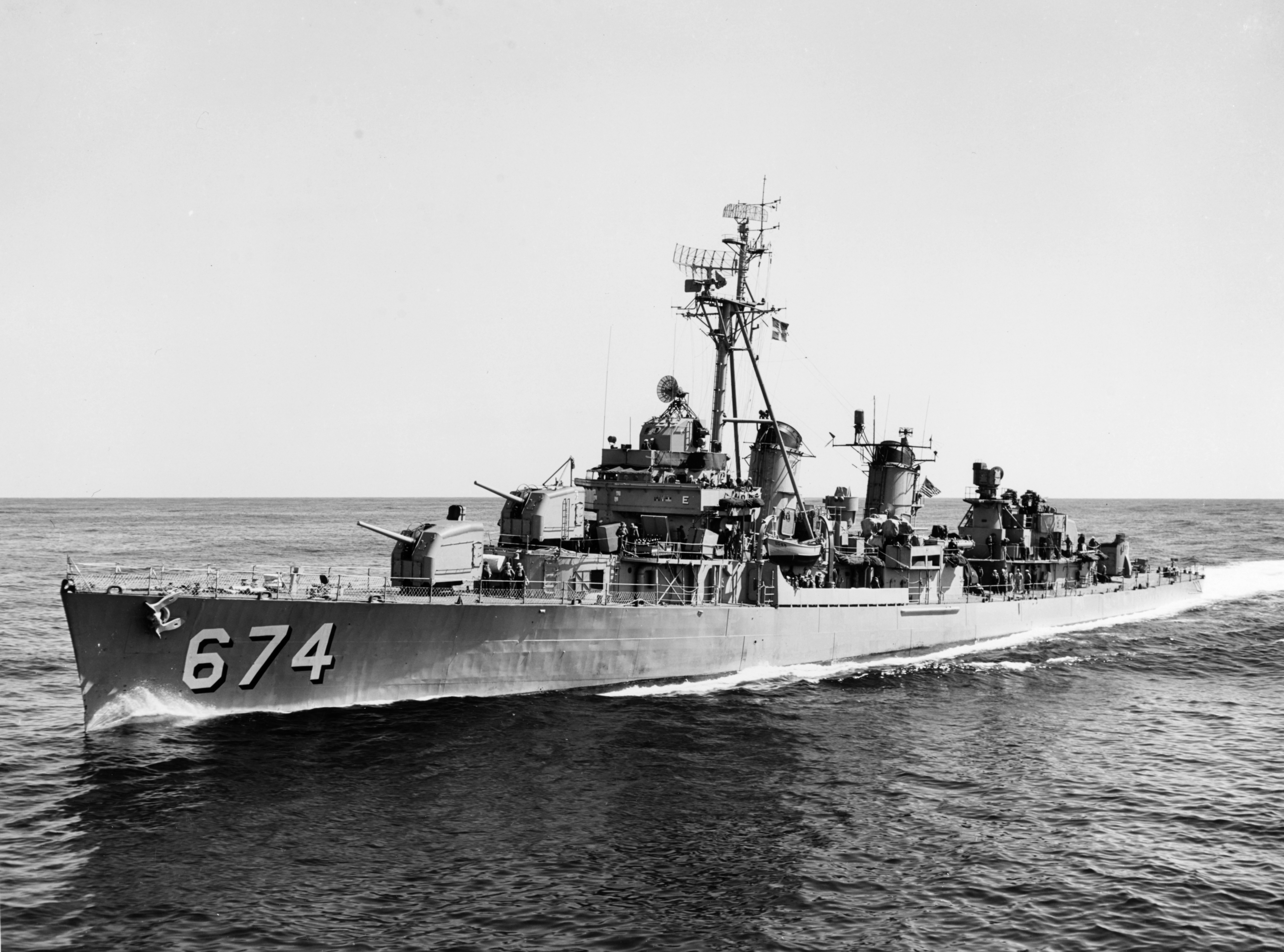 The U.S. Navy destroyer USS Hunt (DD-674) coming alongside of the aircraft carrier USS Tarawa (CVS-40) to refuel, 25 April 1959.